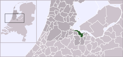 Location of the municipality Gooise Meren.